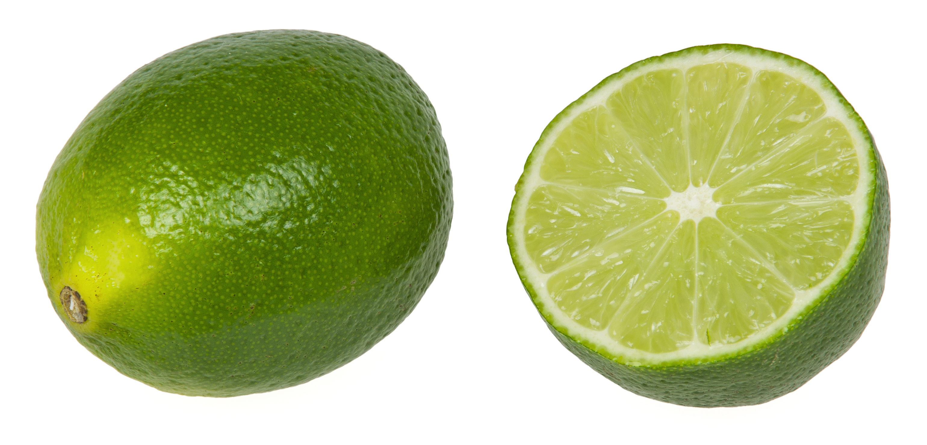 A whole lime and a lime that has been cut in half.